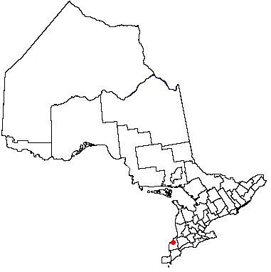 Plympton-Wyoming, Ontario